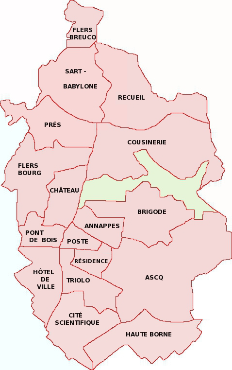 Map of Villeneuve d'Ascq with districts. Made with the GIMP.